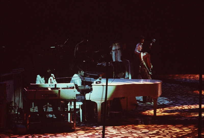 Rolling Stones 7/23/1975; The Rolling Stones in concert with musicians Ian Stewart (right, on piano) and Billy Preston (left)